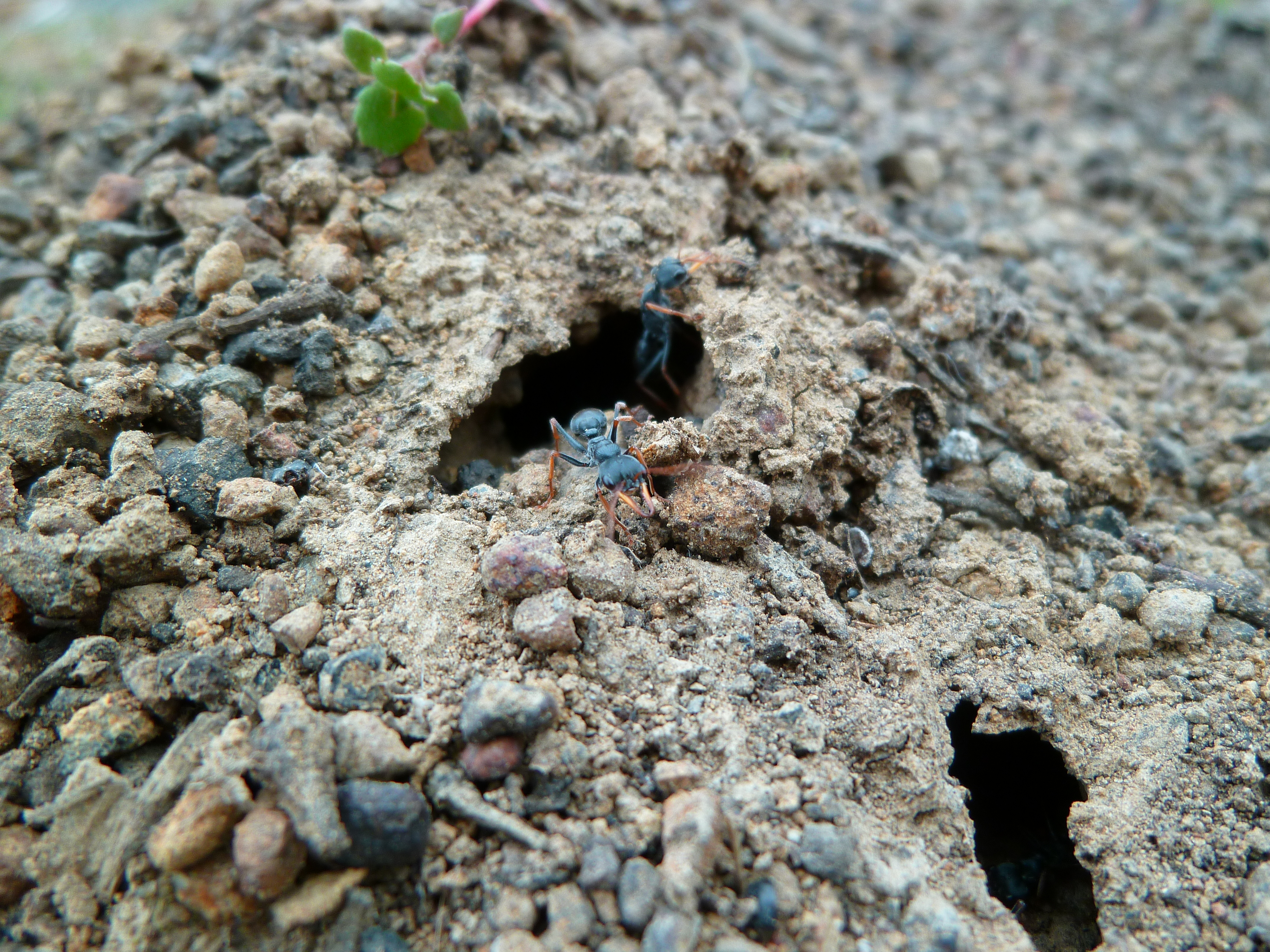 Jack jumper ant (Myrmecia pilosula) photographed in Tasmania